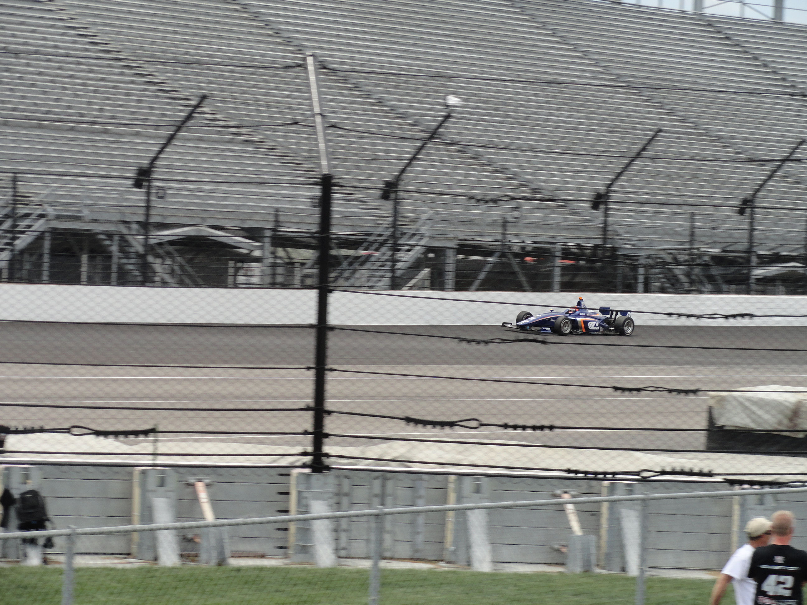 Brazilian racecar driver Matheus Leist, winner of the Freedom 100, race 7 of the 2017 Indy Lights.